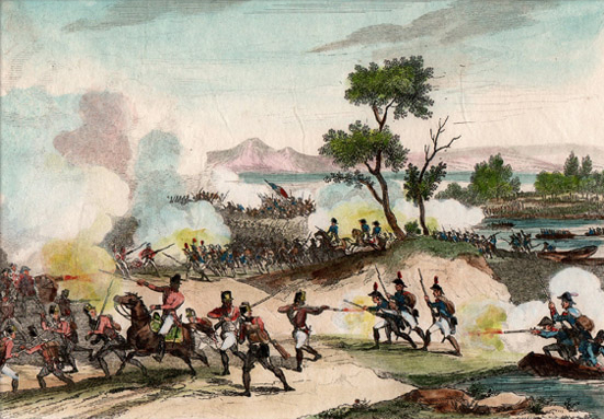 Battle of Neuwied